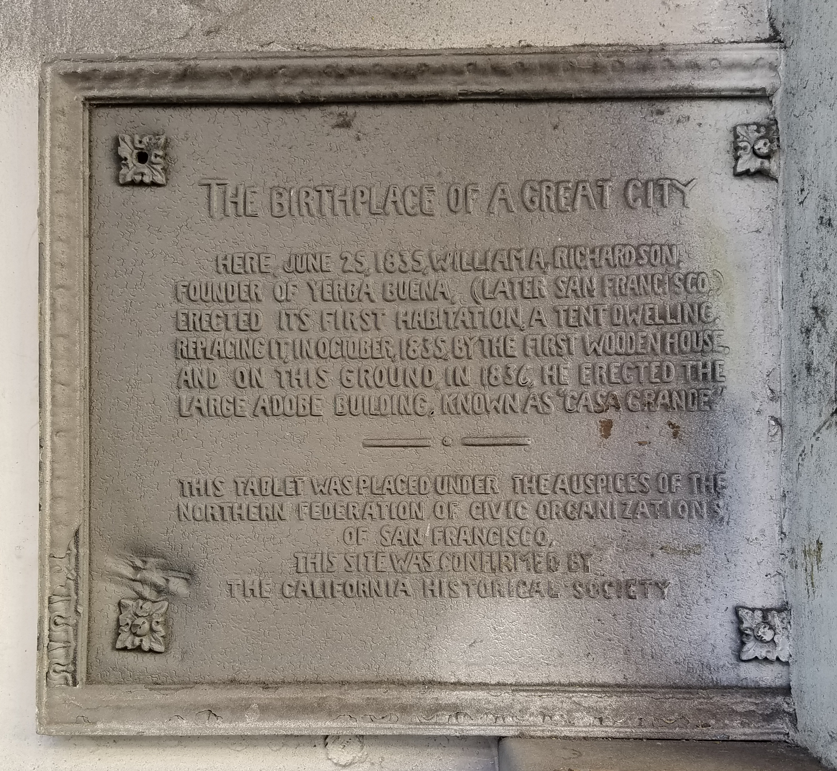 Plaque commemorating the erection of the first building of Yerba Buena (later San Francisco) by William A. Richardson in 1835. Located at the entrance of 823 Grant Avenue (Dick-Young Apartments). The plaque was affixed in 1935 without a copyright notice and is therefore in the public domain.